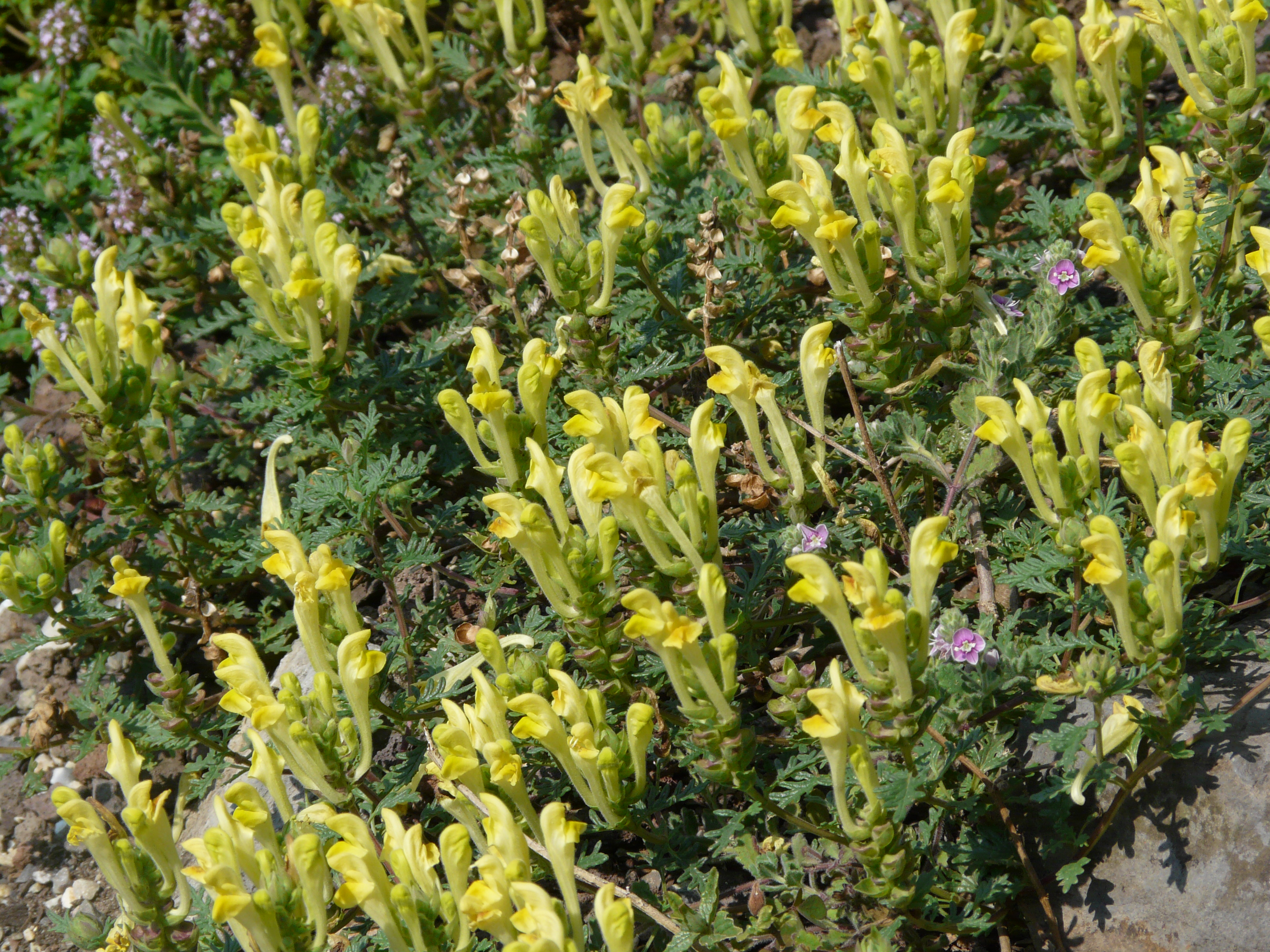 Scutellaria orientalis subsp. pinnatifida (Botanical Gardens Utrecht)